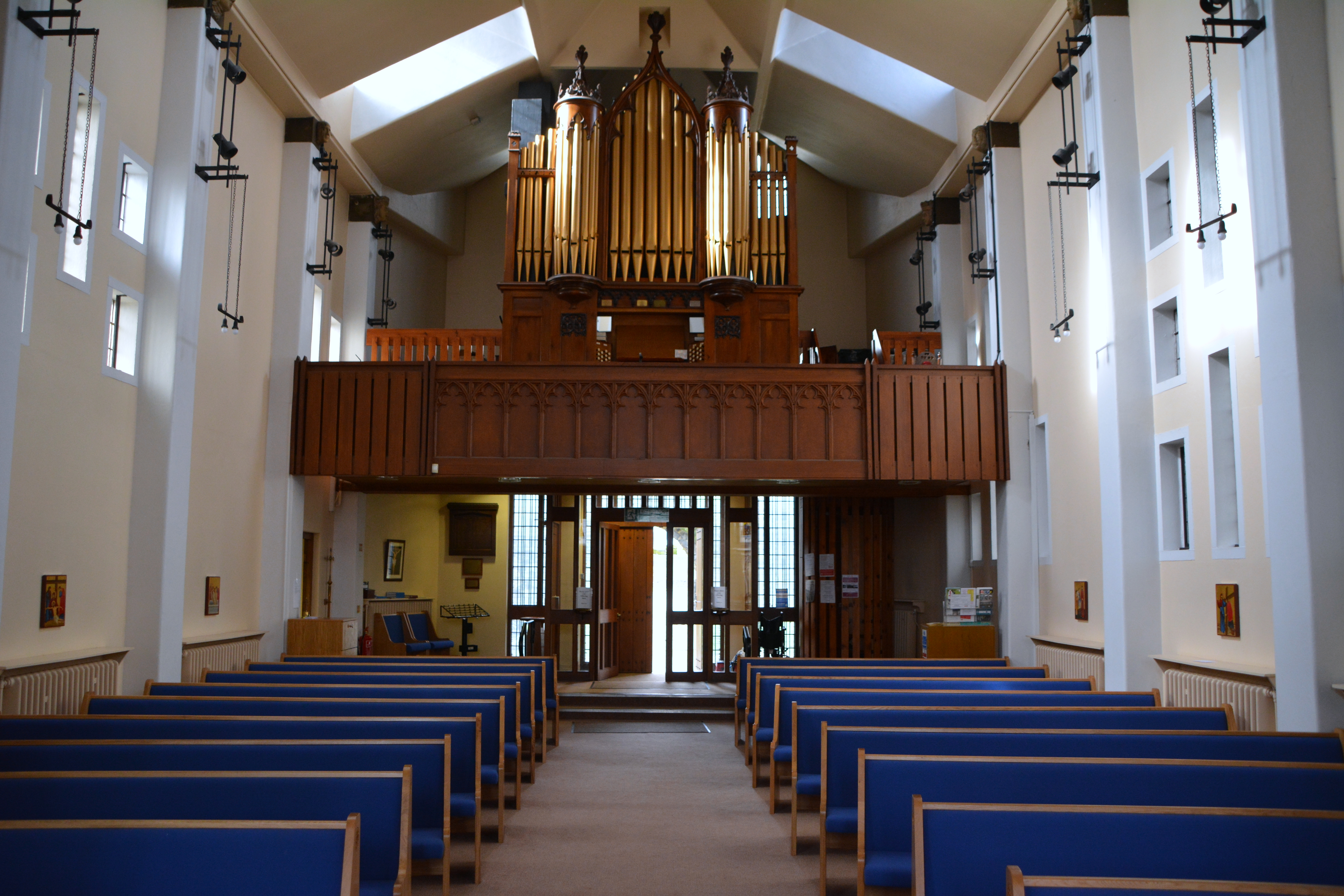 All Saints Church